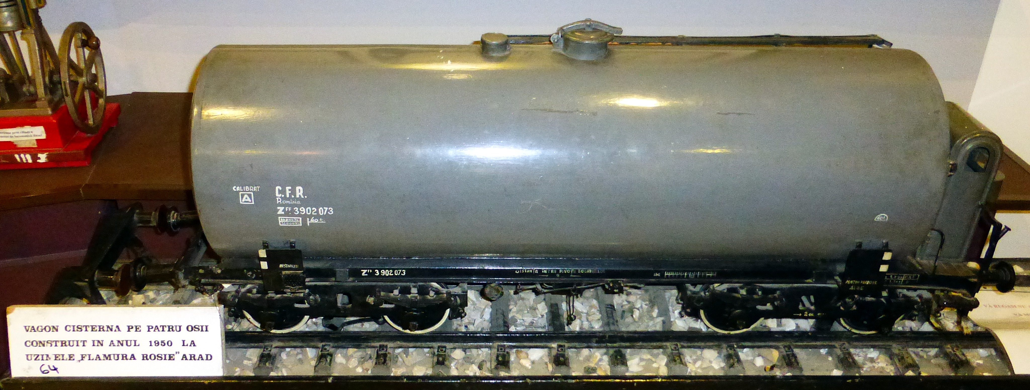 1950s Tank railcar model exhibited in CFR Museum, Bucharest, Romania